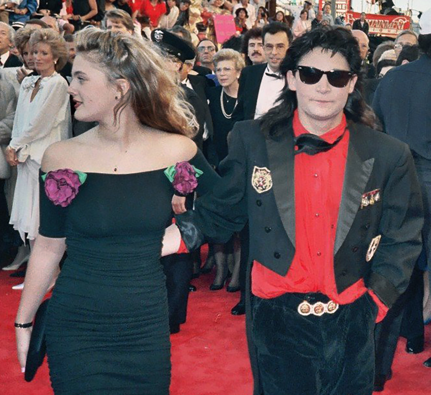 Drew Barrymore and Corey Feldman at the 61st Academy Awards 3/29/89drewbarrymore_coreyfeldman